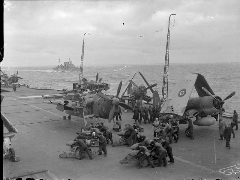 The Royal Navy during the Second World War Fairey Barracuda aircraft on board HMS FORMIDABLE during the Operation Goodwood attacks on the German battleship Tirpitz in August 1944. The escort cruiser HMS BERWICK is in the background.